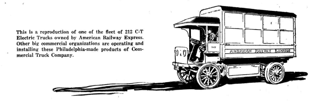 Commercial Truck Company newspaper ad, showing a Railway Express Agency truck from 1920.